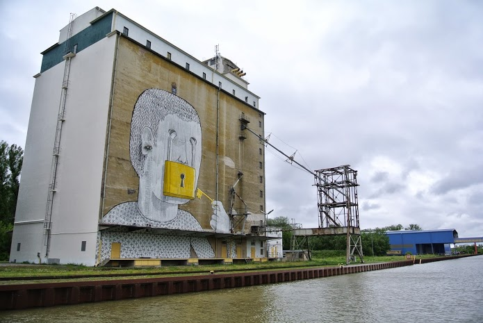 Blu Mural at the Danube river harbour Albern in 1110 Vienna